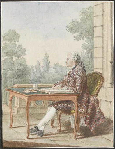 Louis Carrogis, called Louis de Carmontelle (1717–1806), French draughtsman, painter, dramatist and landscape architect